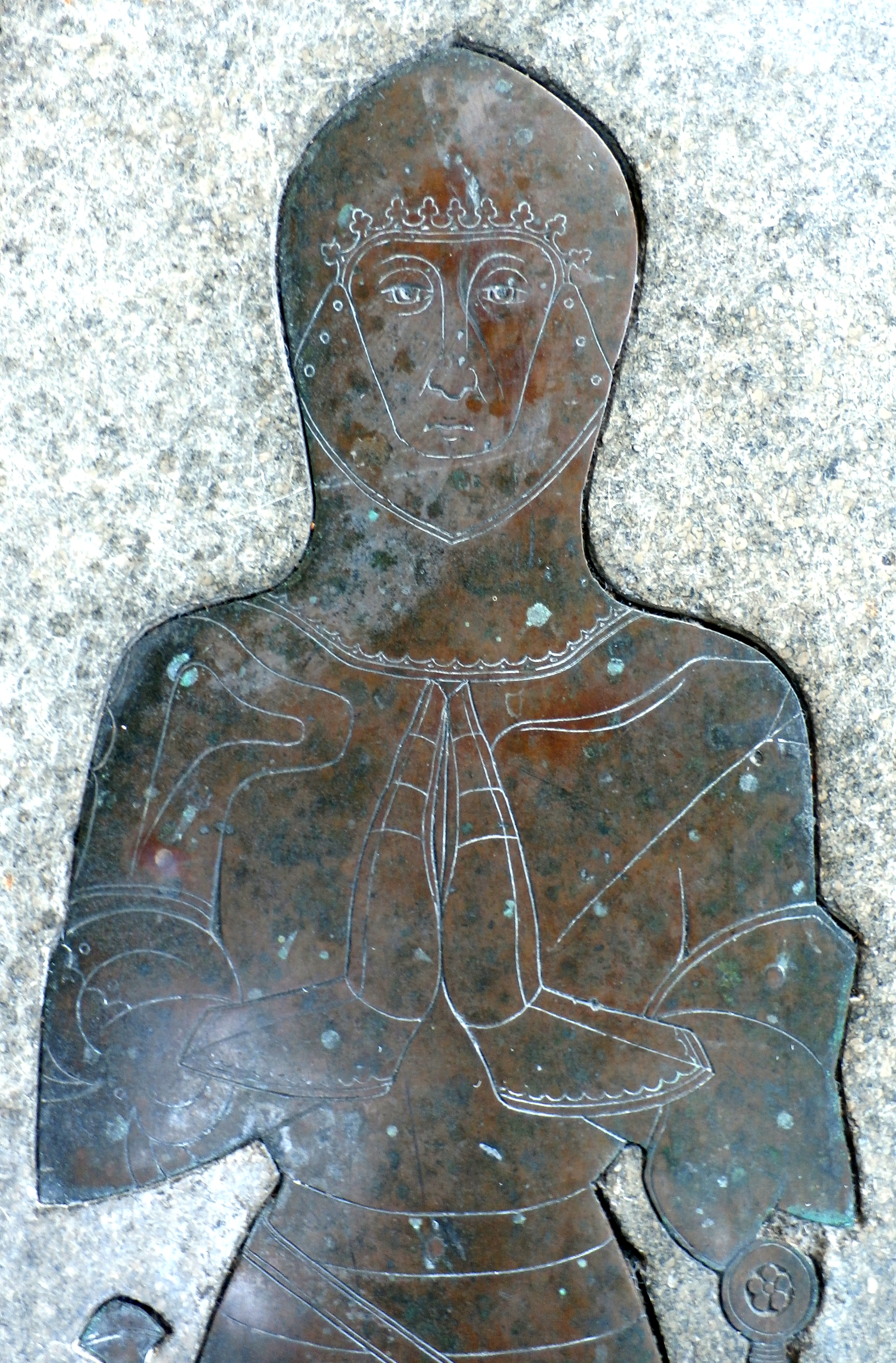 Detail of monumental brass of William Wadham (d.1452) of Merryfield, Ilton, Somerset, Sheriff of Devon in 1438. Wadham Chapel (north transept), St Mary's Church, Ilminster, Somerset. (Rogers, William Henry Hamilton, Memorials of the West, Historical and Descriptive, Collected on the Borderland of Somerset, Dorset and Devon, Exeter, 1888, pp.147-173, The Founder and Foundress of Wadham, p.156)